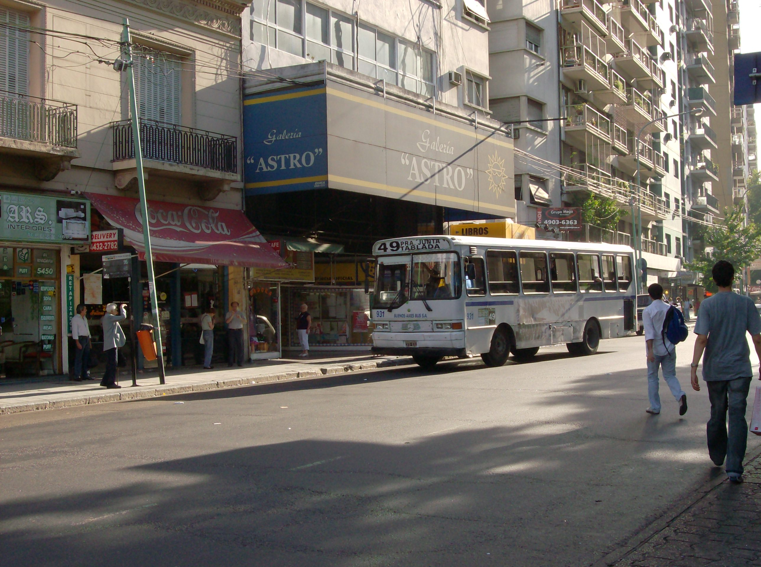 Colectivo, line 49 picture, at Primera Junta Station, A subway, Buenos Aires City (Capital Federal). Bus (#931) with Mercedes-Benz chassis, Buenos Aires Bus S.A. (Transporte Ideal San Justo S.A.) operator.